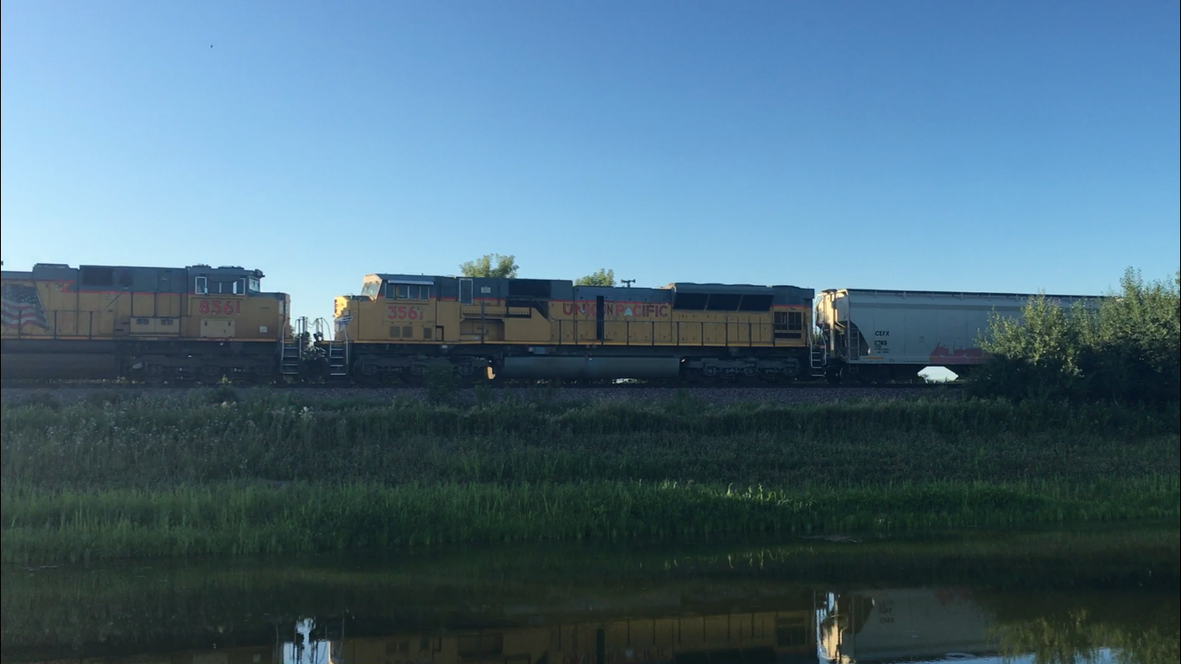 UP 3567, an SD9043MAC, trails on a westbound manifest on the Altoona Subdivision near MP 11.7